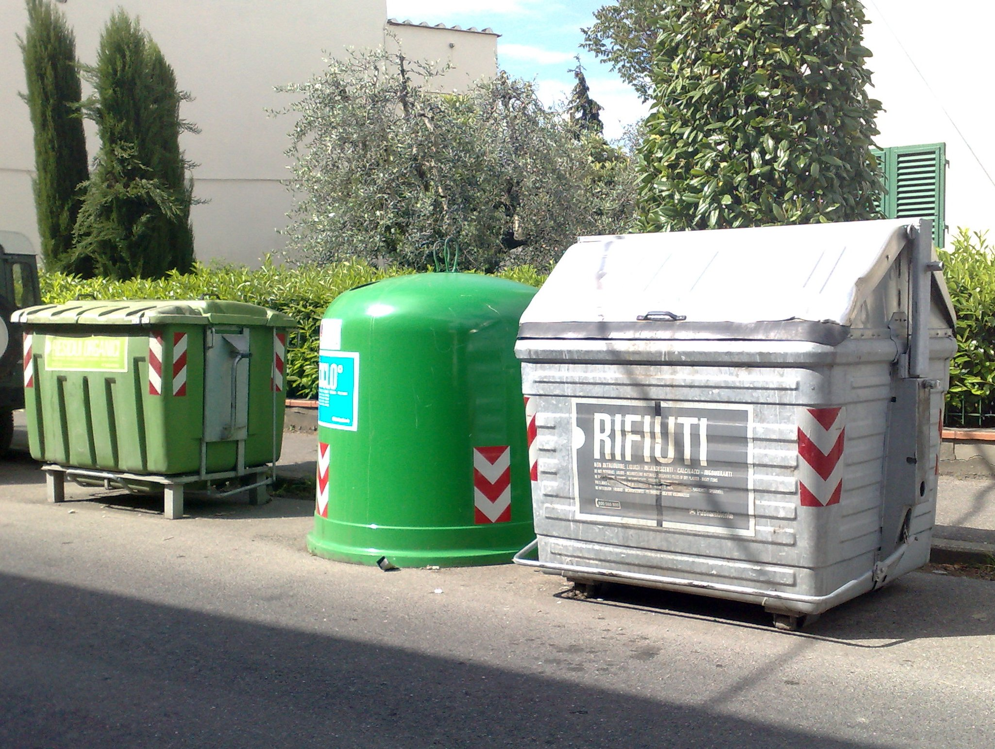 Sorted waste containers in Tuscany (olive green: organic waste; bright green: aluminium, plastics, glass; grey: unsorted waste)